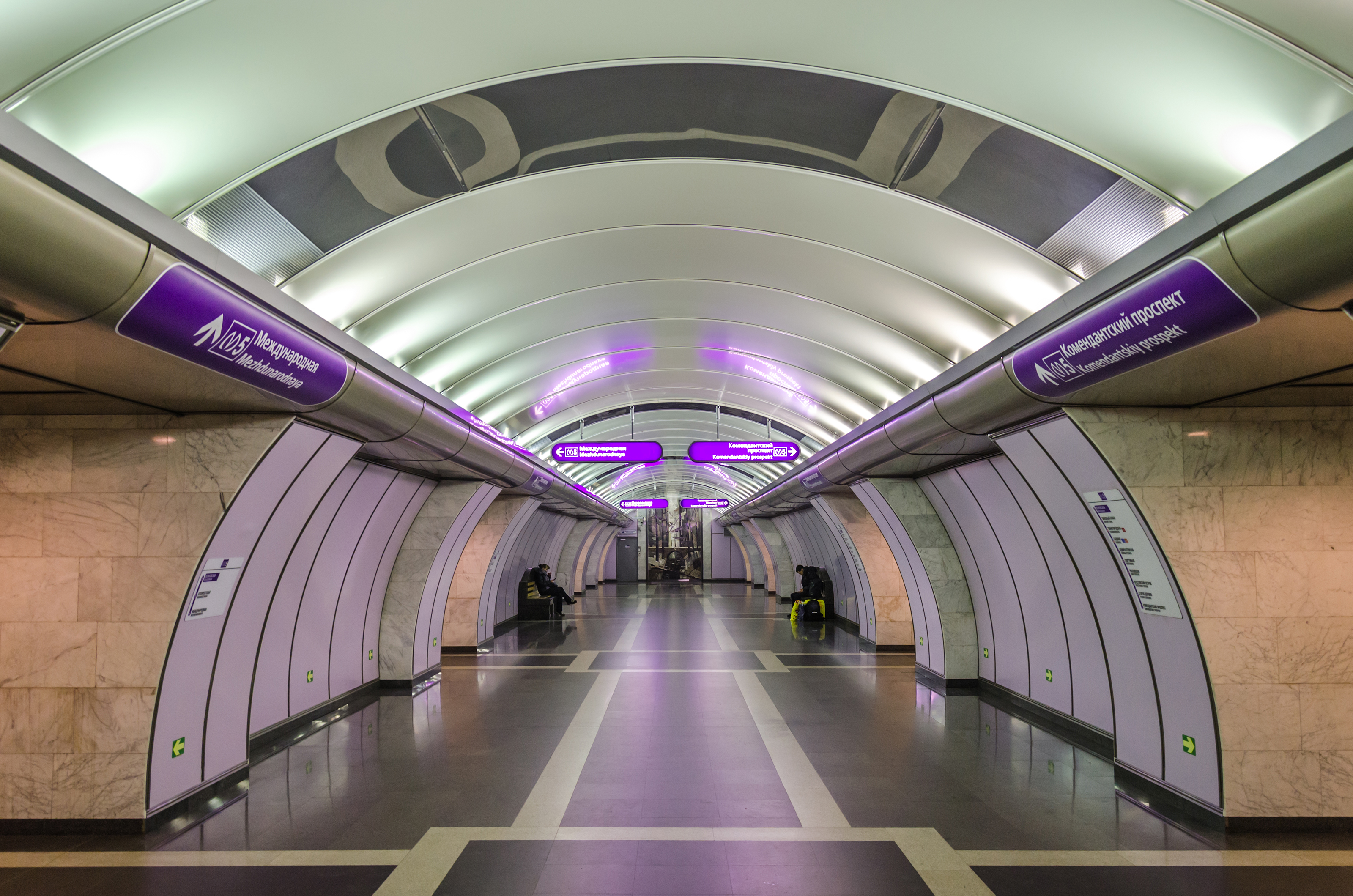 Volkovskaya subway station in Saint Petersburg